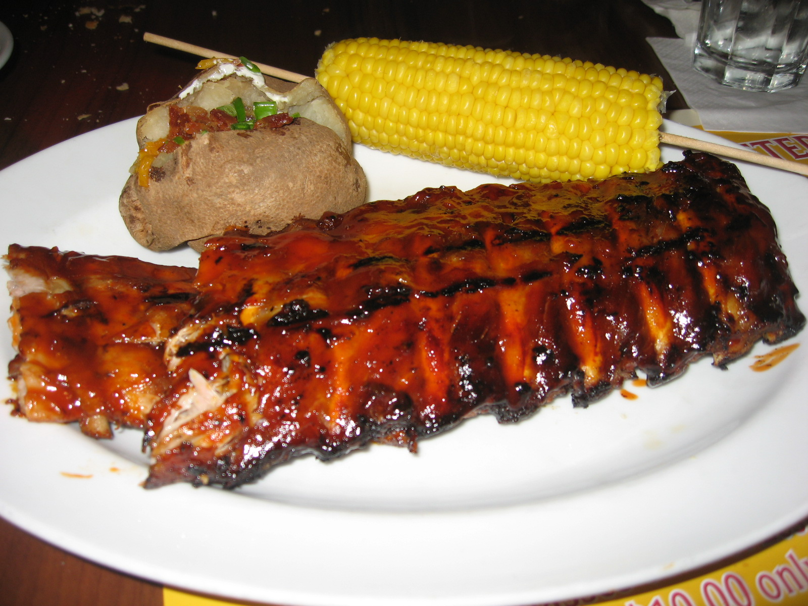 A full slab Baby back ribs from Tony Roma's.